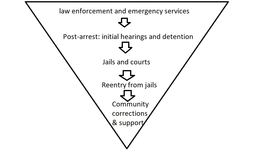 The Sequential Intercept Model consists of five points of interception to prevent people with mental illness to penetrate into the criminal justice system.